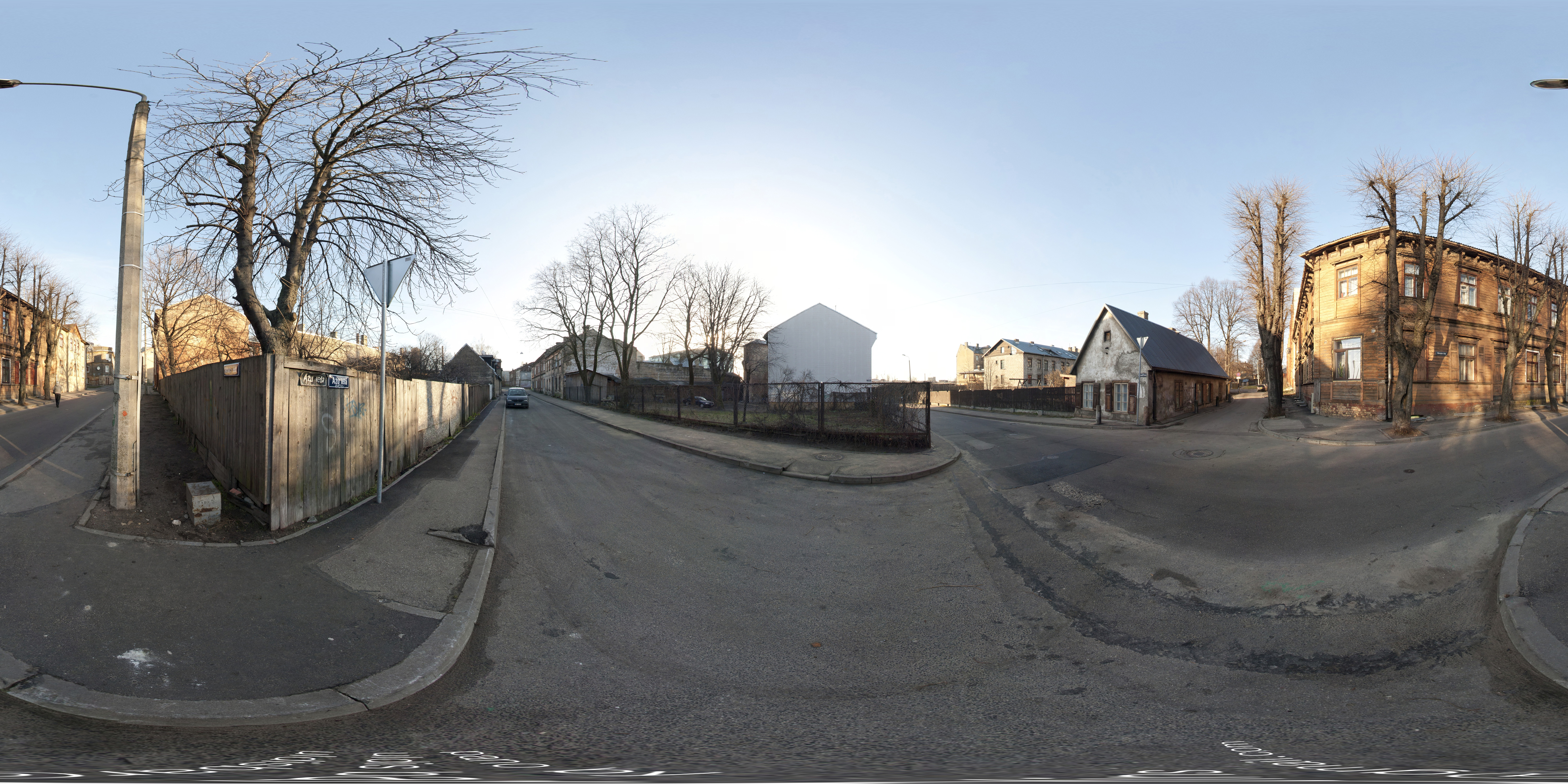 Sarkandaugava, neighbourhood of Riga